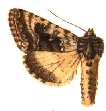 From Plate CCXXXVI